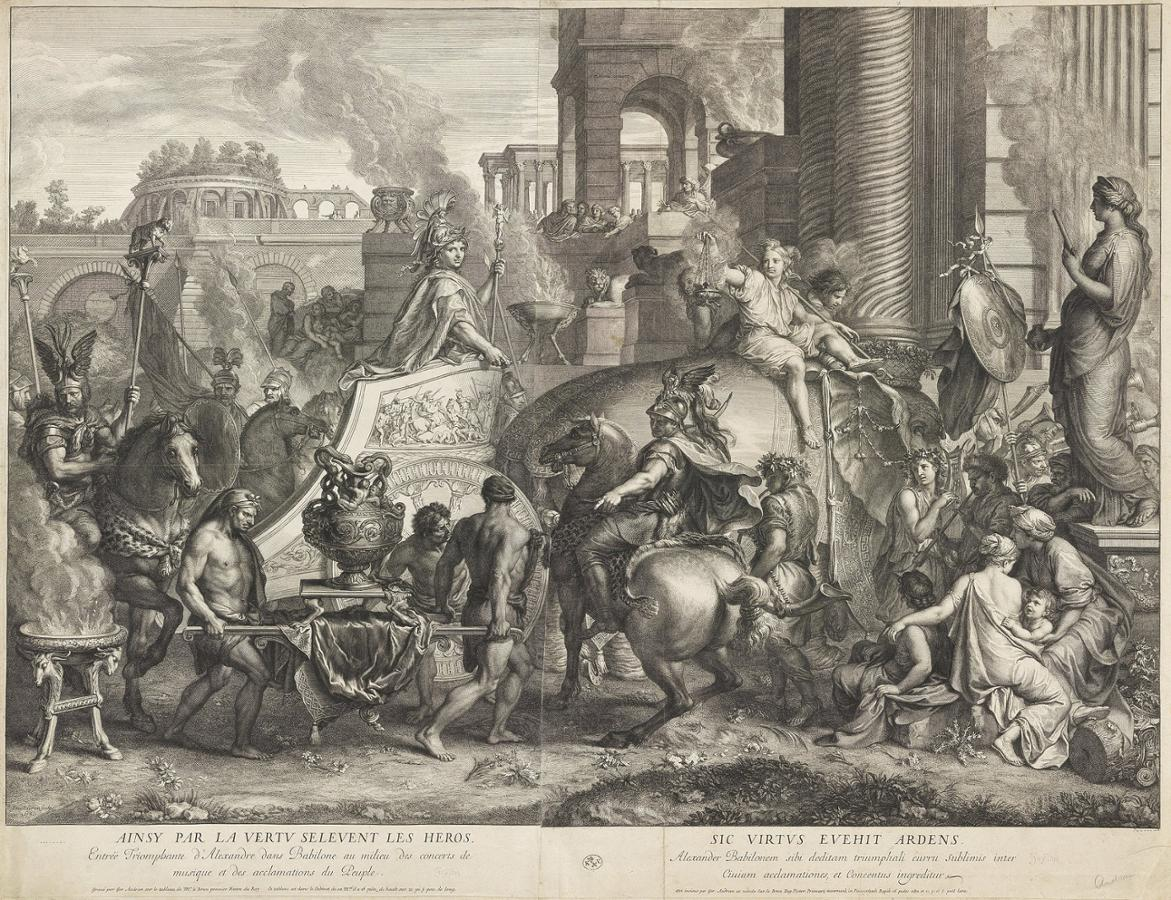 Der Einzug Alexanders des Großen in Babylon by Gérard Audran, 1675, aus der vierteiligen Folge Die Schlachten Alexanders des Großen, 1672–1678, nach einem Gemälde von Charles Le Brun, Radierung, Kupferstich, 74.4 x 93.7 cm